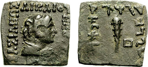 Coin of the Indo-Graeco king Theophilos